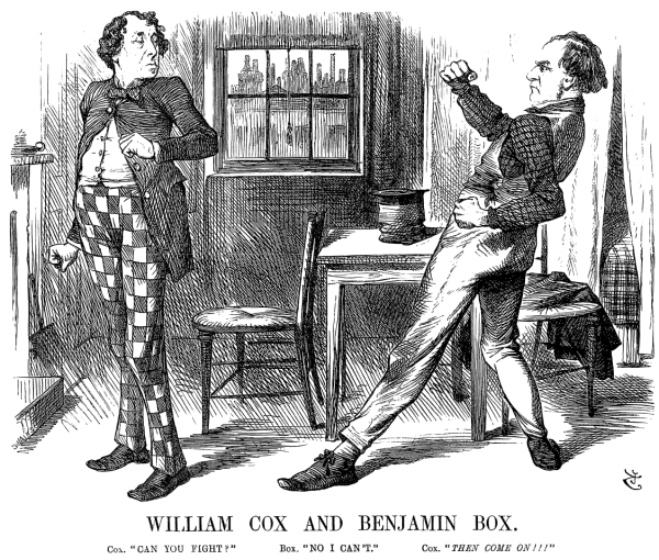 "William Cox and Benjamin Box". Cartoon by John Tenniel, depicting Benjamin Disraeli (left) as Mr Box and William Ewart Gladstone as Mr Cox in John Maddison Morton's play Box and Cox, or F. C. Burnand and Arthur Sullivan's musical adaptation, Cox and Box.